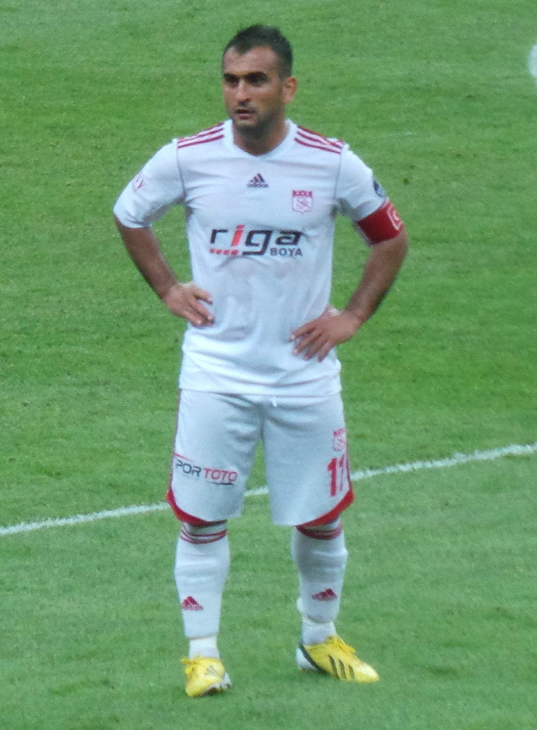 Erman vs GS